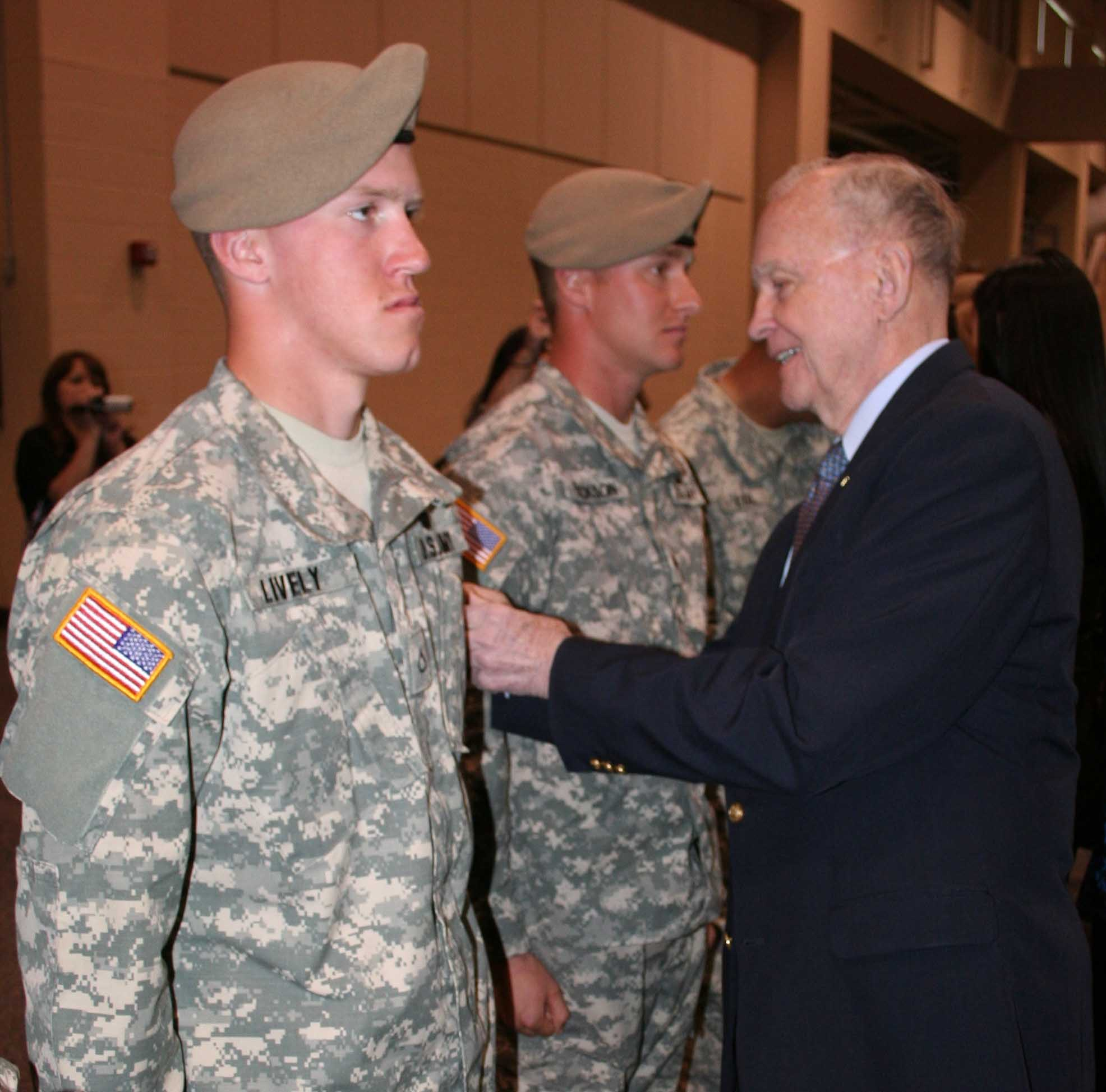 Retired Col. Ralph Puckett places the hard-earned 75th Ranger Regiment scroll on Pfc. Nathan Lively at the Ranger Assessment and Selection 1 graduation, March 5, 2010.